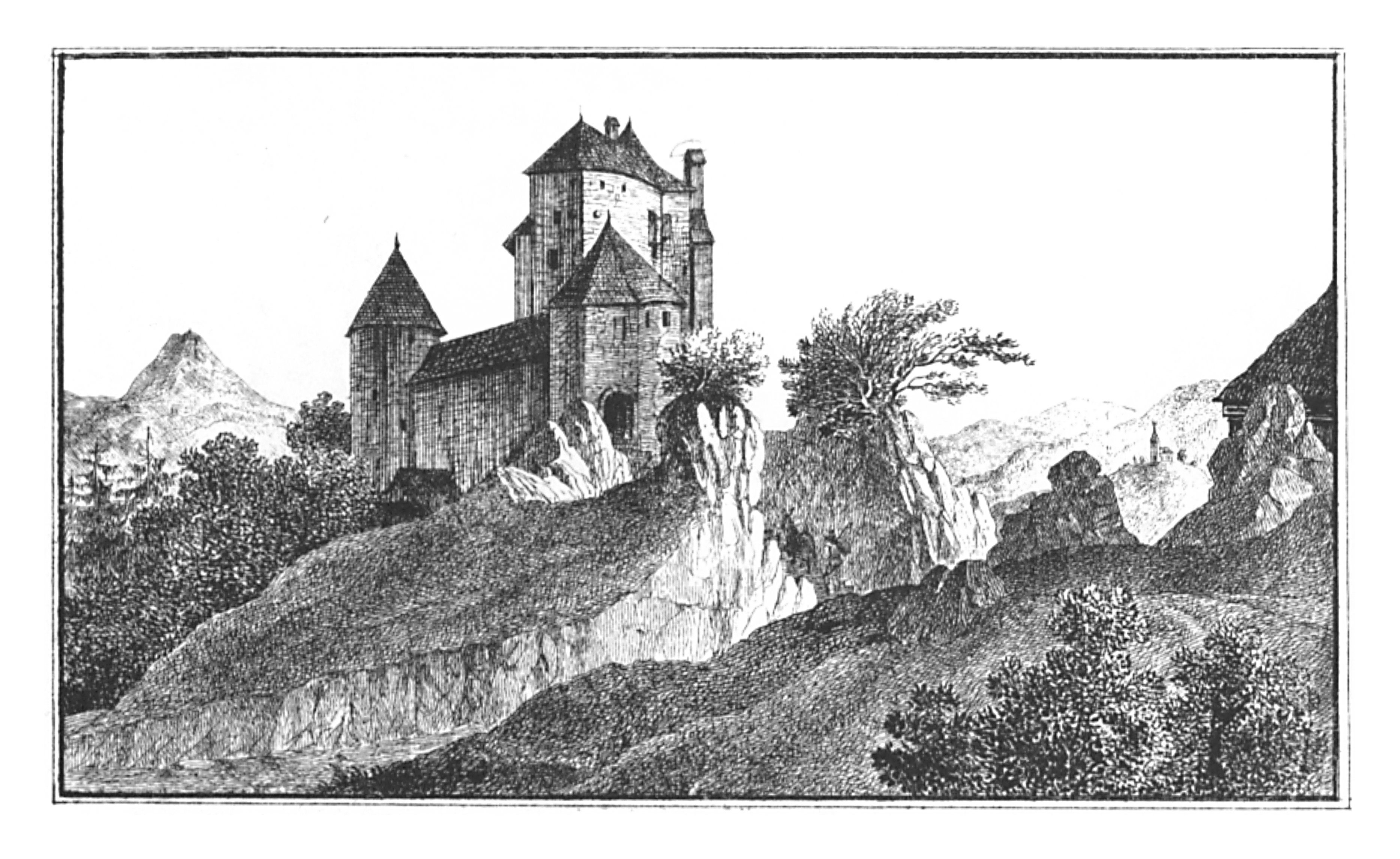 J. F. Kaiser - lithographirte Ansichten der Steyermärkischen Städte, Märkte und Schlösser, Graz 1824-1833 Joseph Franz Kaiser (1786–1859) Alternative names J. F. KaiserDescriptionAustrian printer and editorDate of birth/death 11 March 1786 19 September 1859Location of birth/death Graz (Styria) GrazAuthority control : Q1499963 VIAF: 30629353 ISNI: 0000 0000 3083 0153 LCCN: n87141671 GND: 129880159 NLP: A24960305 WorldCat creator QS:P170,Q1499963 . Scanprojekt Community Projektbudget 2012 This scan or this PDF-file was created within the GLAM-project Bookscanning, supported by Wikimedia Germany and Wikimedia Austria as a part of the community-project to capture books, documents and pictures which are not eligible to copyright or for which the copyright has expired. This document describes or depicts an object which is located in Austria today. Send requests for uncompressed scans to Hubertl. This work is in the public domain in its country of origin and other countries and areas where the copyright term is the author's life plus 100 years or less. You must also include a United States public domain tag to indicate why this work is in the public domain in the United States. This file has been identified as being free of known restrictions under copyright law, including all related and neighboring rights.